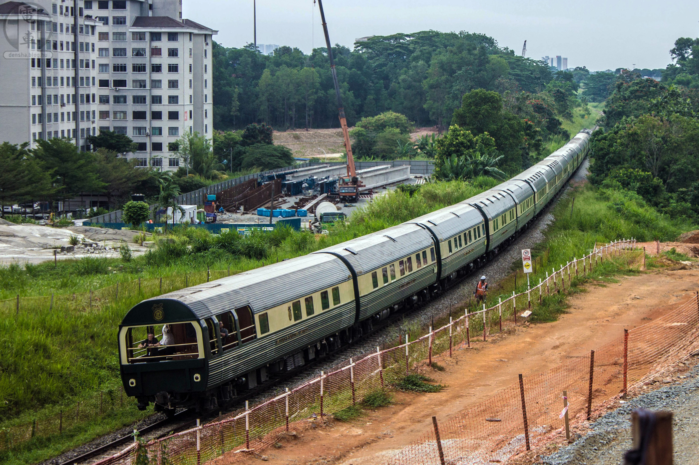 The Eastern and Oriental Express on its way back to Bangkok from Singapore, captured in Johor Bahru, Malaysia.